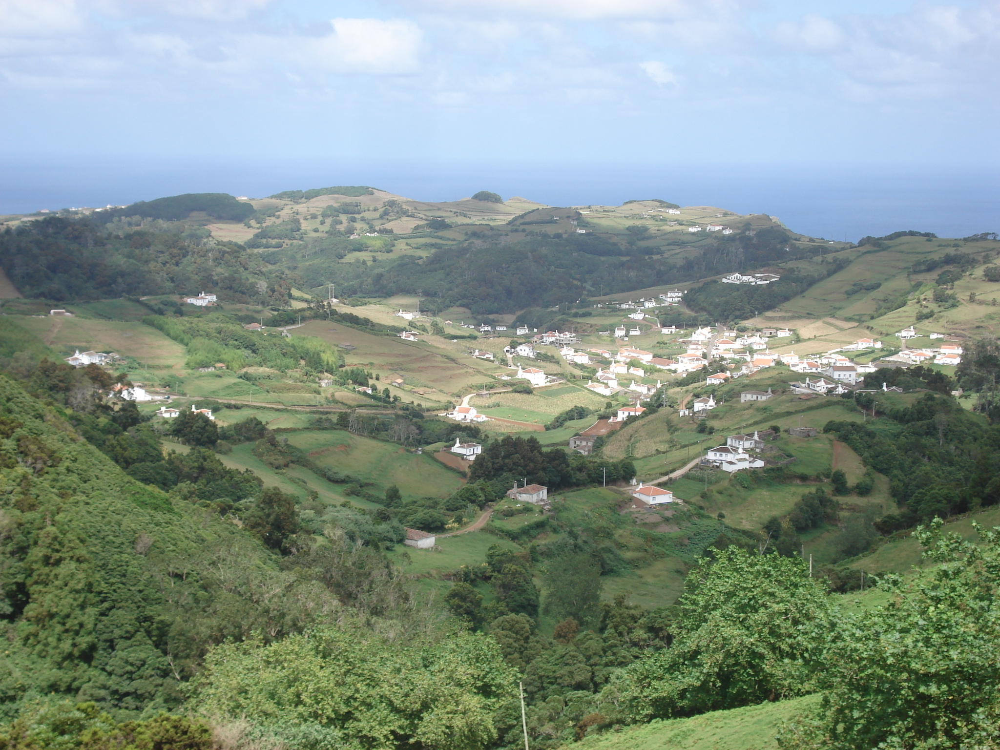 The village of Santa Barbara, secluded in a valley, Santa Maria Island, Azores